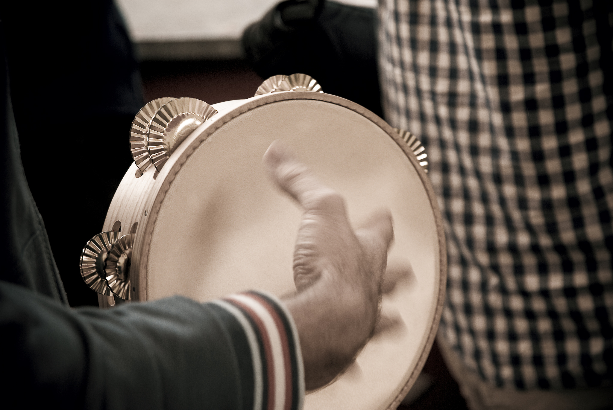 Tambourine in the Basque Country.